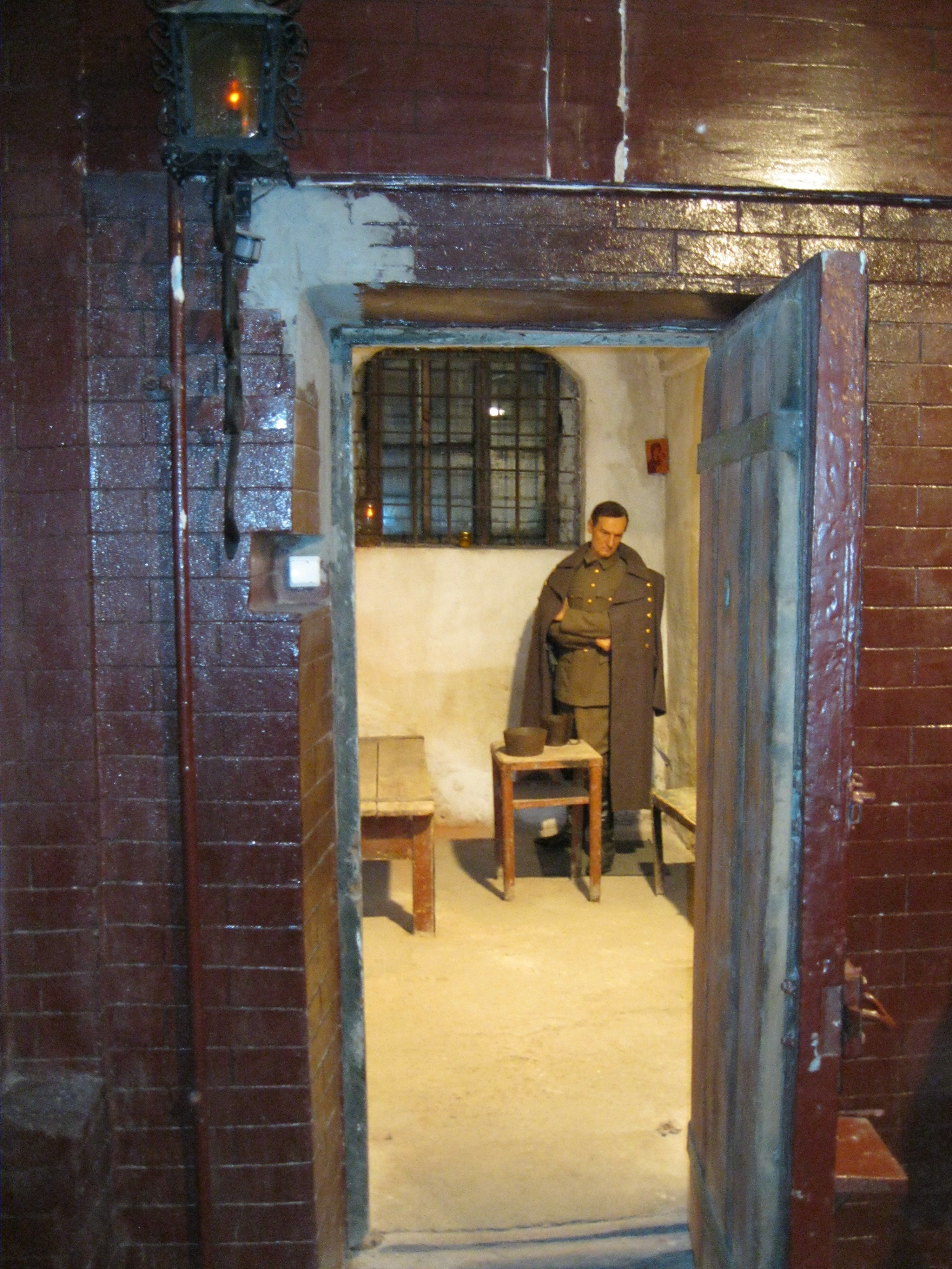 Kamera Kolchaka